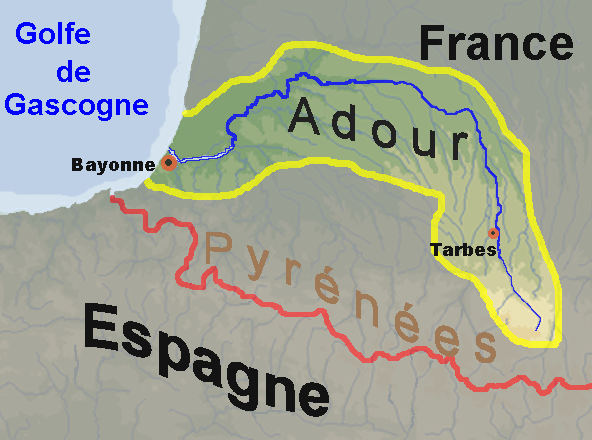 Adour-French version